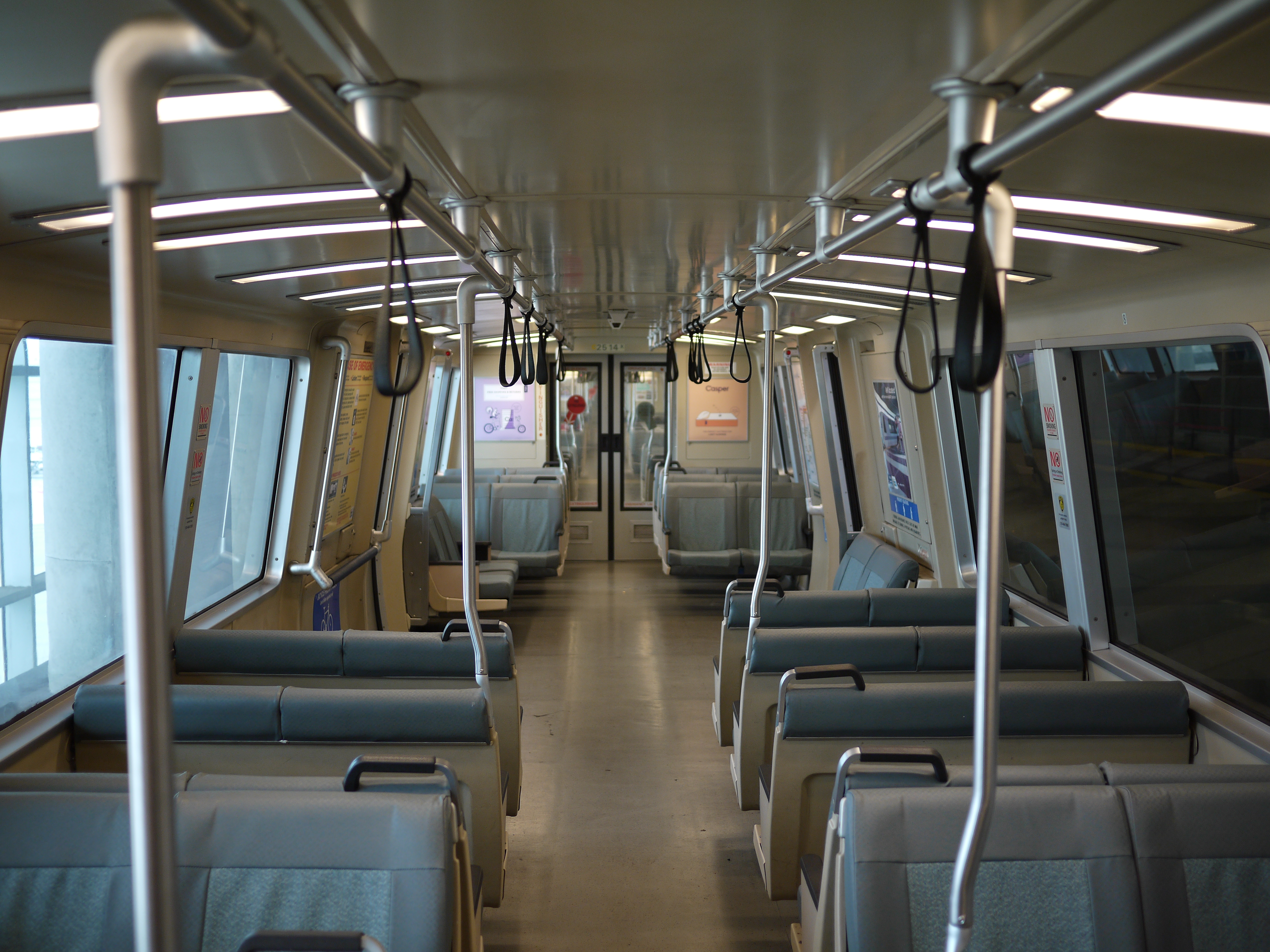 Inside of BART C car